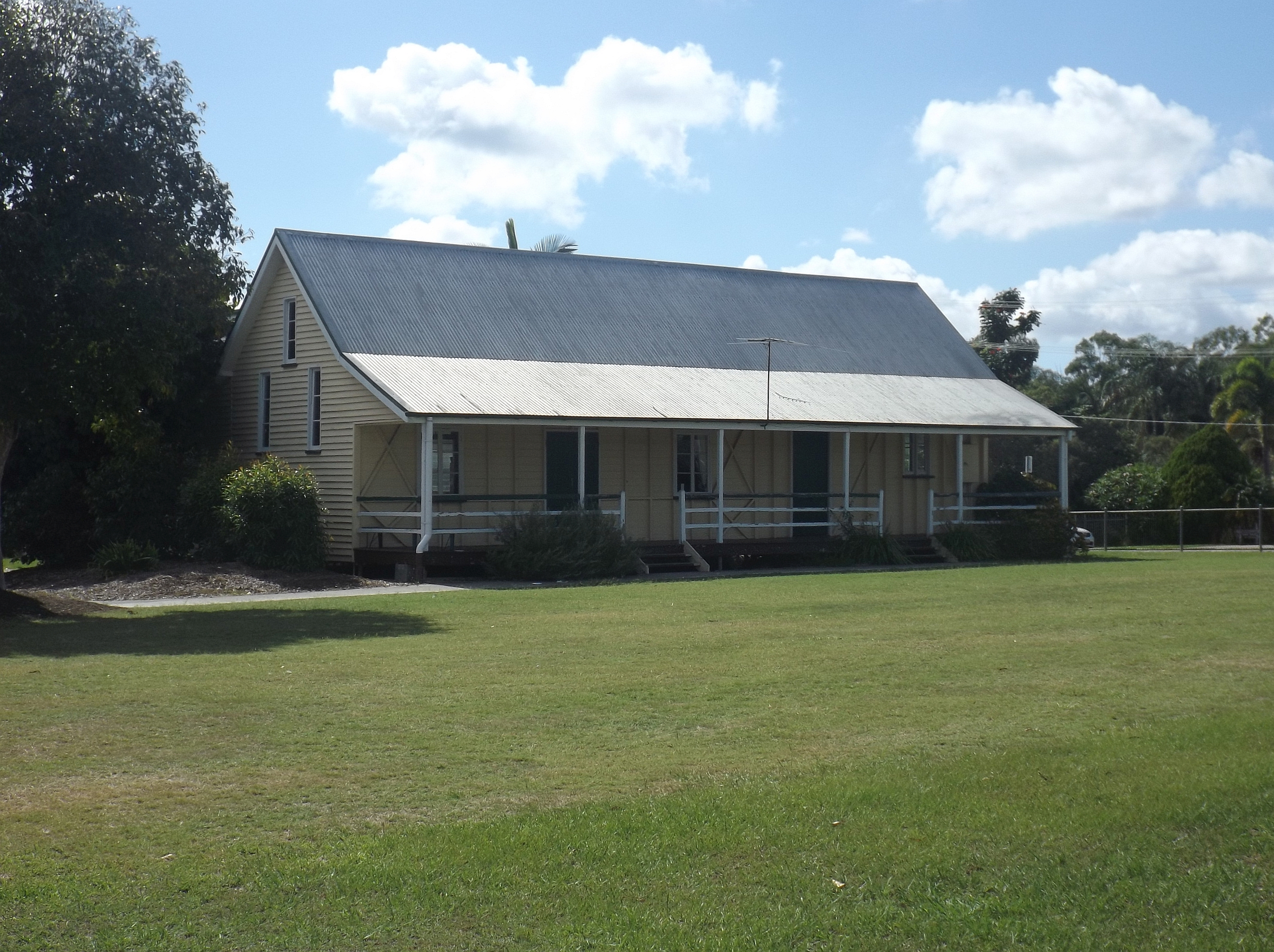 Photo of Waterford State School at Waterford, City of Logan, Queensland, Australia.